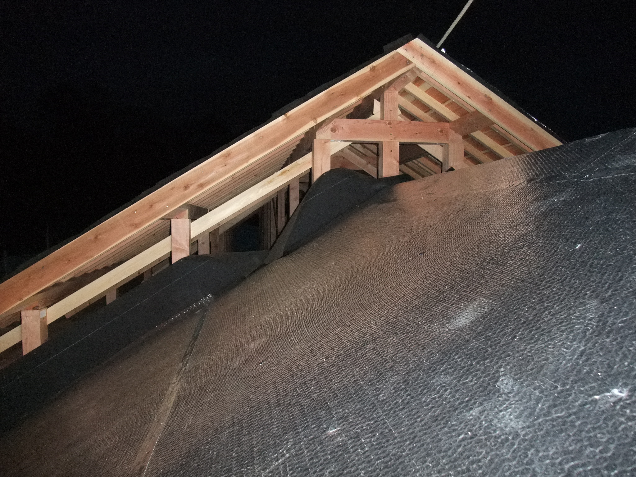 asphalt roofing、tar paper and Heat shield plate